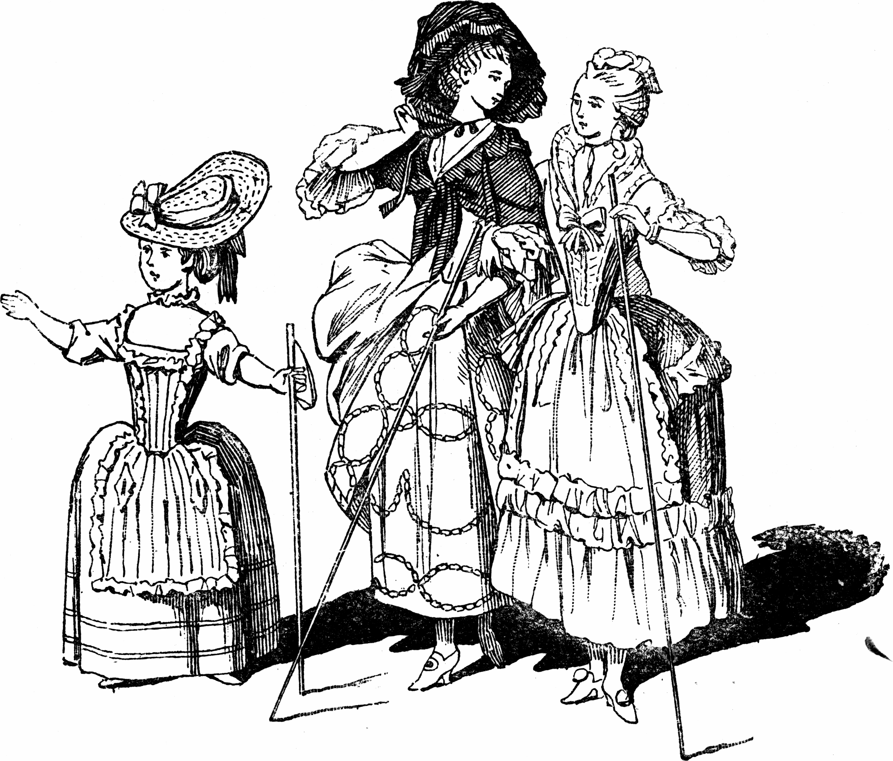 A girl and two women using canes as 18th-century fashion accessories. The depiction of the girl is redrawn from the fashion plate image:1778-Bourgeois-daughter-fashion.jpg